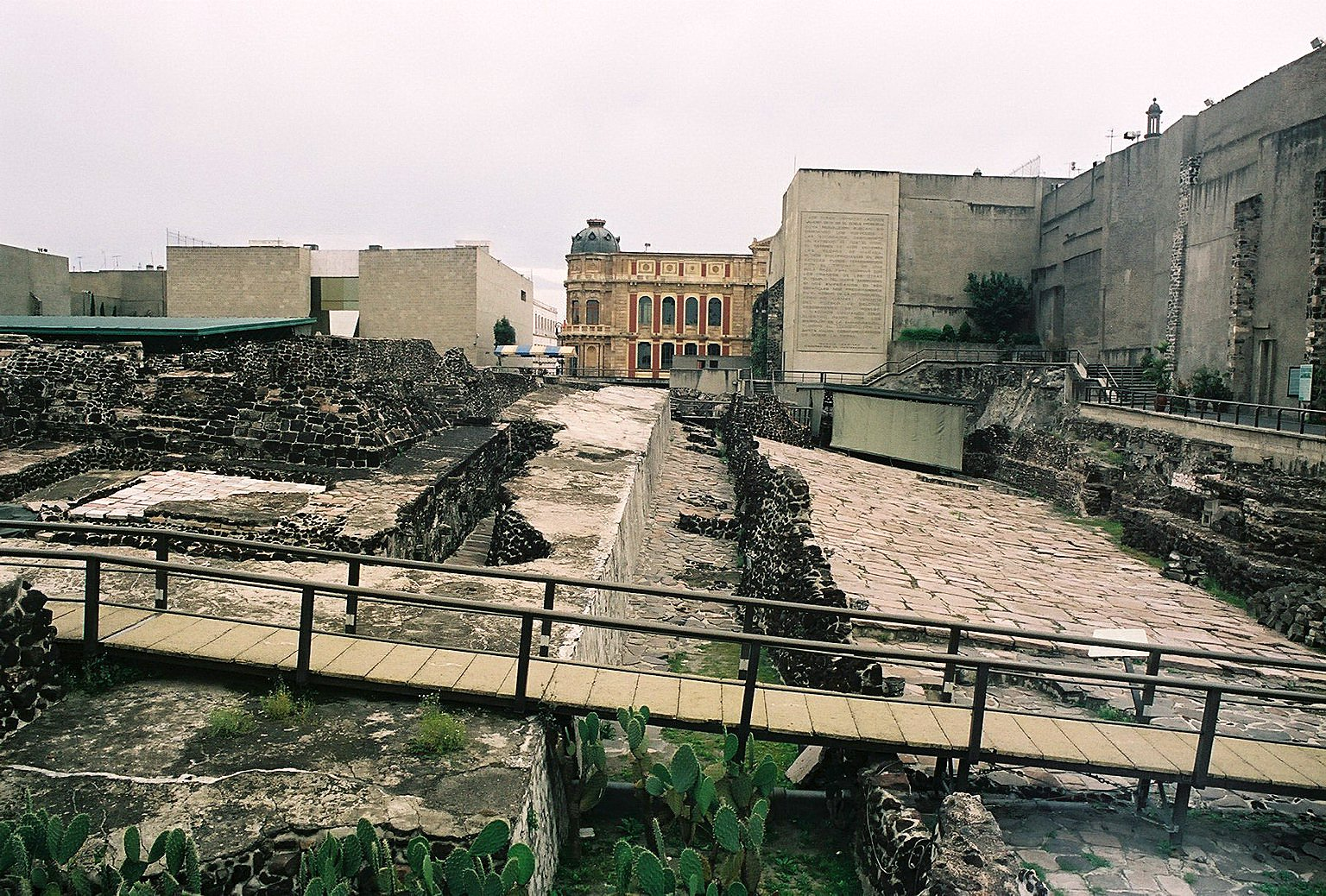 Partial view of the the Aztec Templo Mayor.